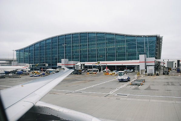 Terminal 5, Heathrow Airport, 10/09.